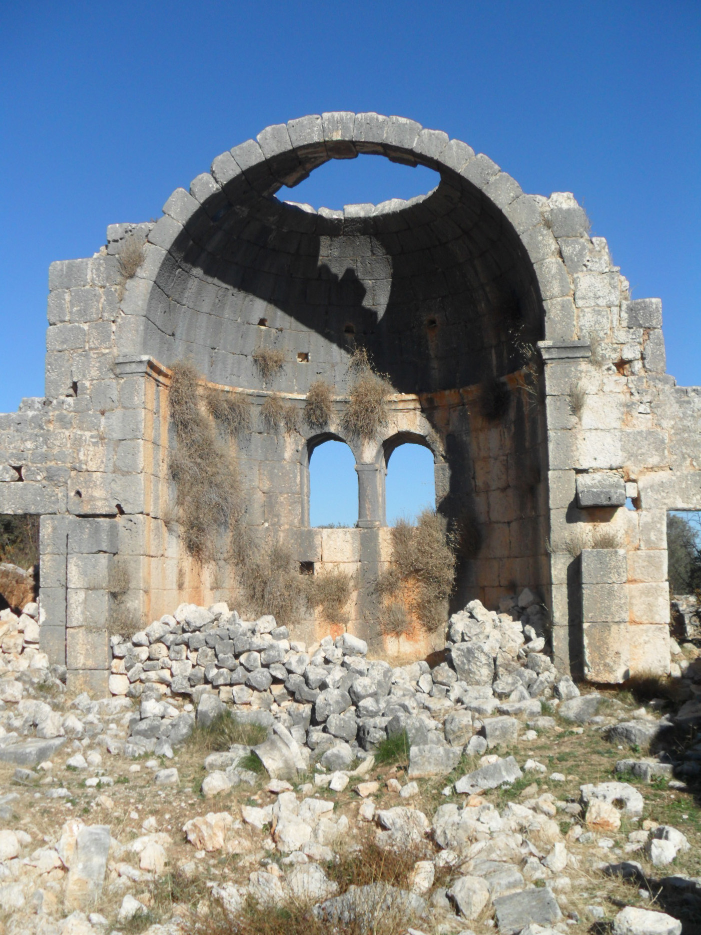 Yanikhan basilica in Erdemli district, Mersin Province, Turkey